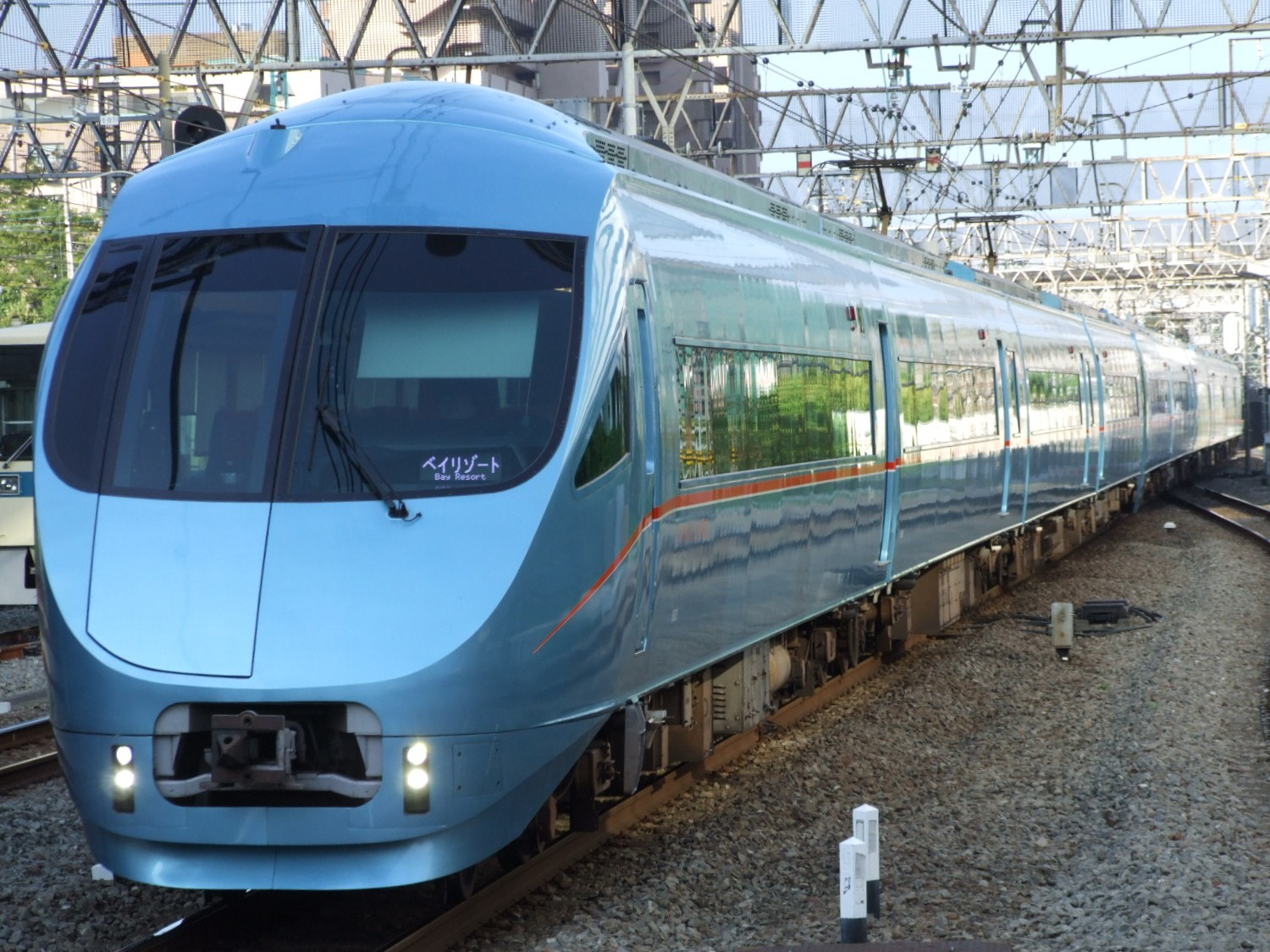 〝Bay Resort〟of Series 60000 -Odakyu RomanceCar MSE-,Odakyu Electric Railwey,Japan